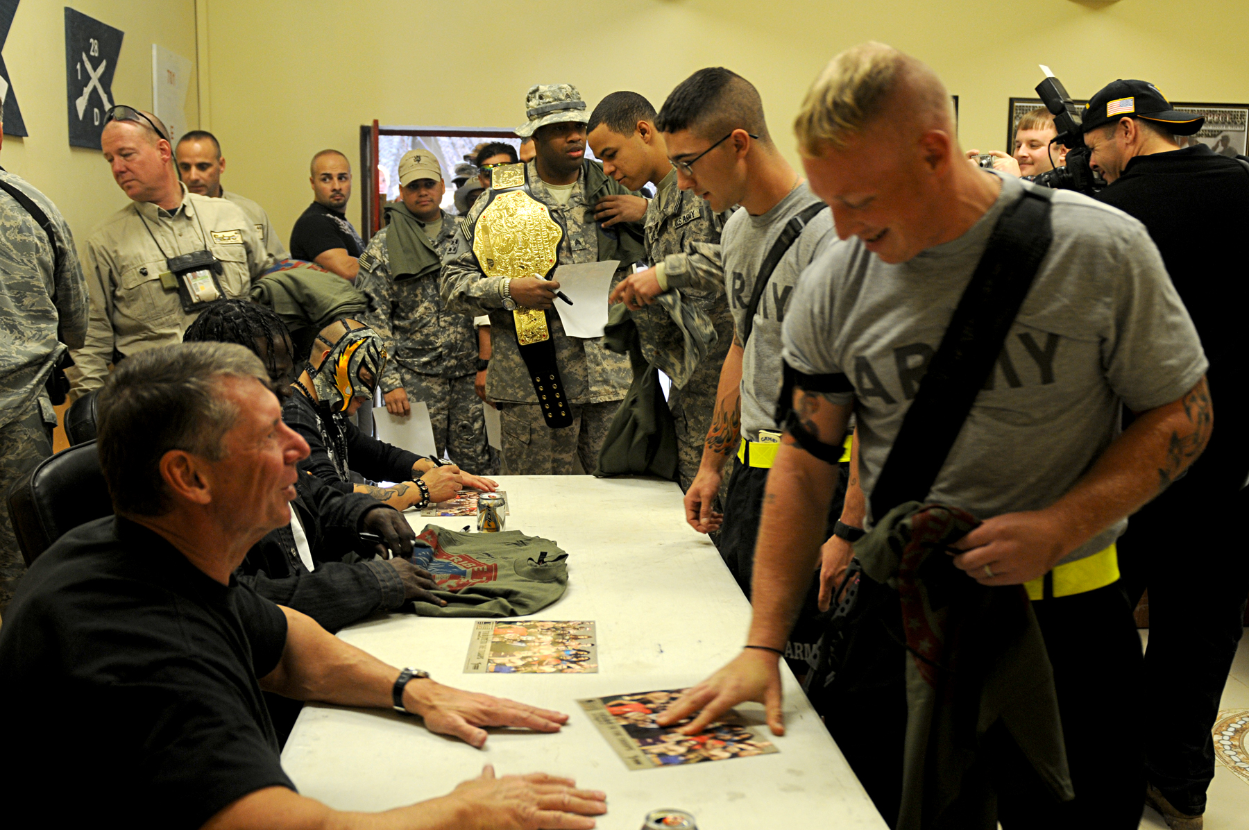 Soldiers of the 1st Battalion, 28th Infantry Regiment, 4th Infantry Brigade Combat Team, 1st Infantry Division out of Fort Riley, Kan., file through the unit’s conference room at Forward Operating Base Paliwoda, Dec. 3 to meet and receive autographs from six superstars of the World Wrestling Entertainment, including WWE Chairman of the Board and Chief Executive Officer, Vince McMahon. The visit was part of a three-day WWE Tribute to the Troops tour.